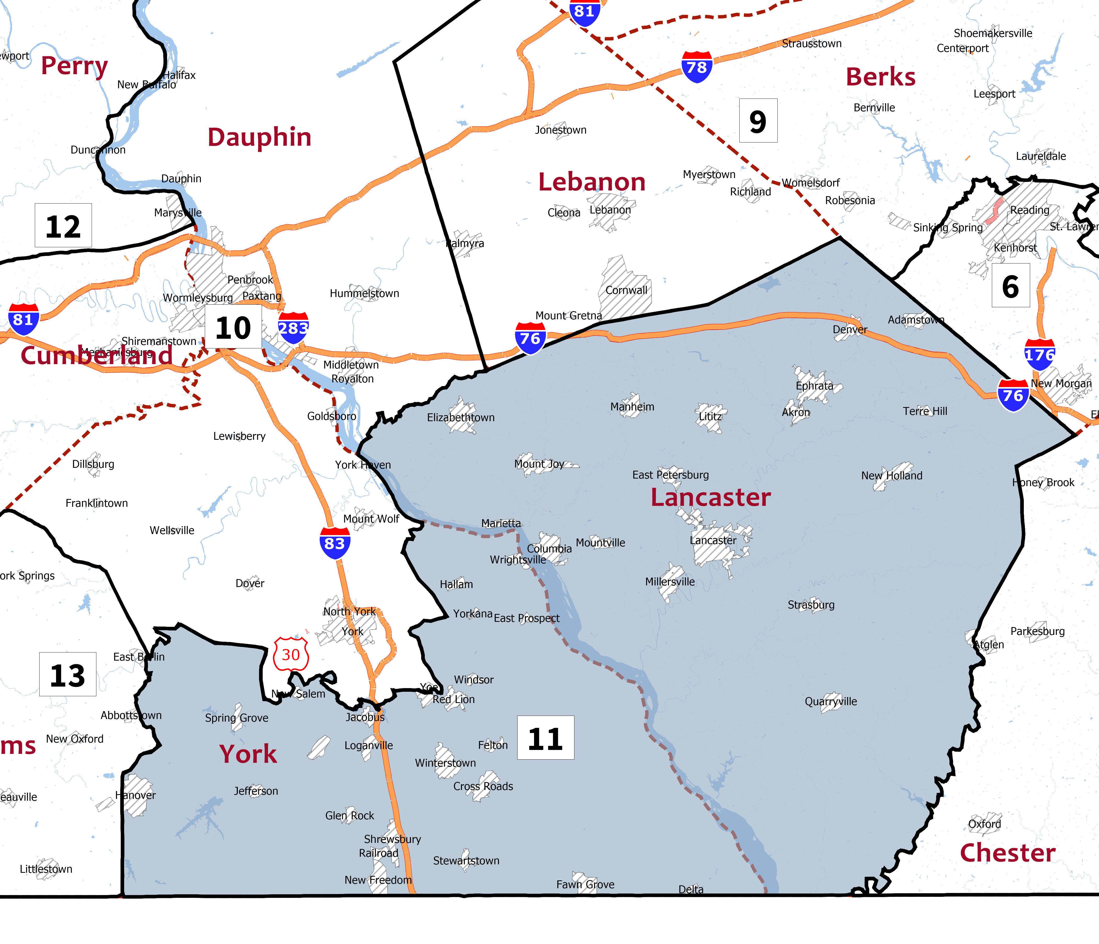 Pennsylvania congressional district 11